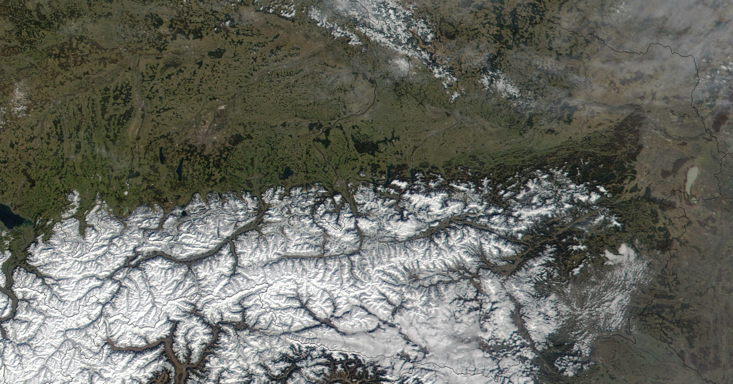 Satellite image of Austria in March 2002.